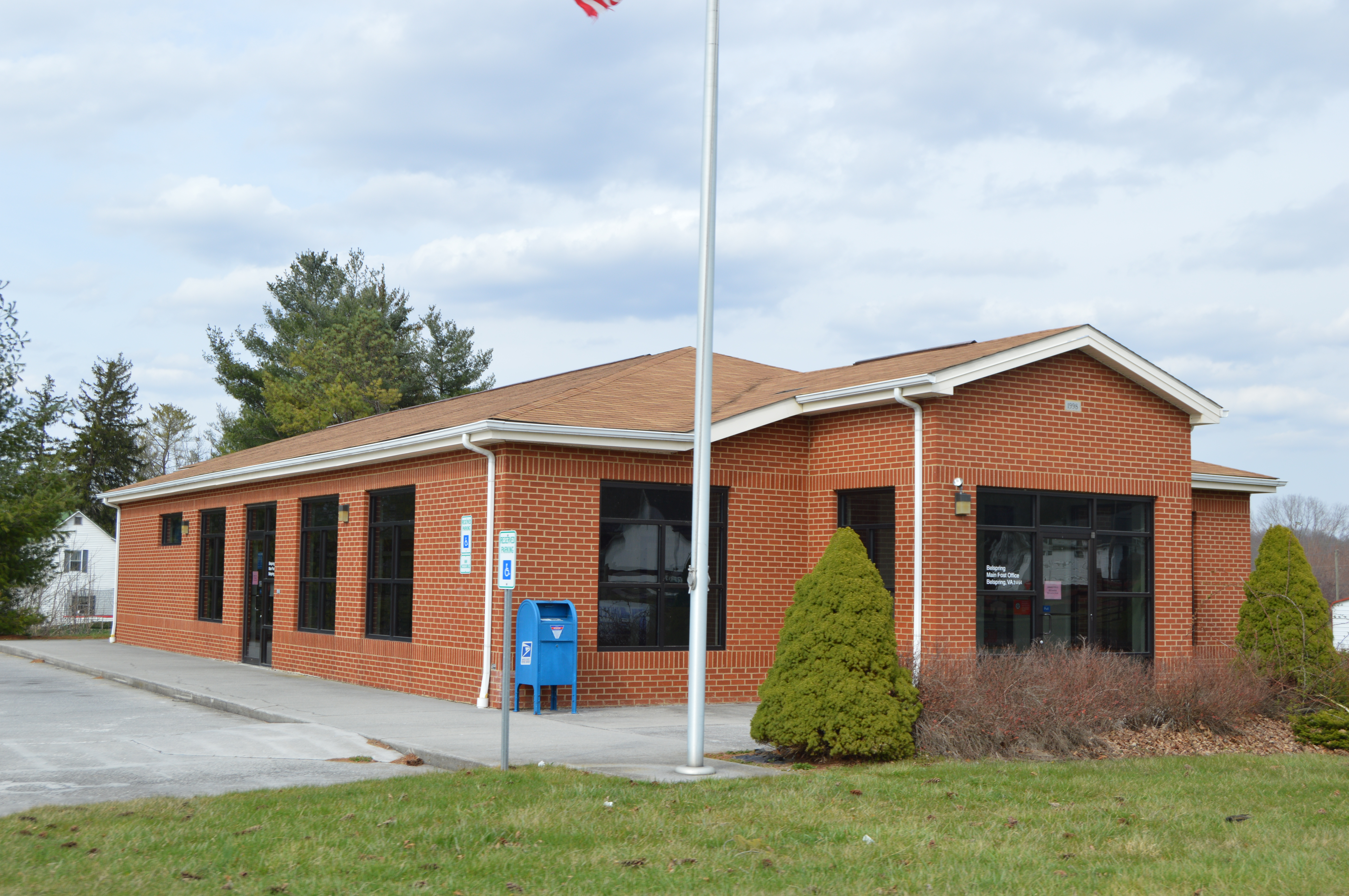 Front of the Belspring post office, located at 7893 Neck Creek Road in Belspring, Virginia, United States.